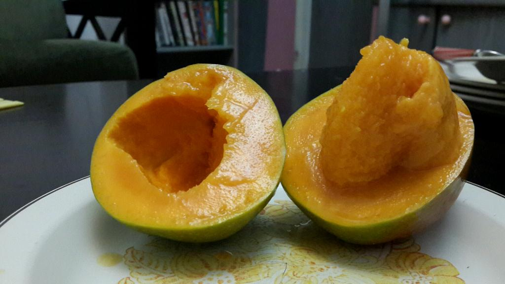 Alfonse (or Alphonso) Mango grown in Egypt is probably the best mango in the world. It has it all: smooth creamy texture, great sweet taste, strong and admirable character, beautiful smell and many more features which only this breed offers. Photo By Wael Nawara This is an image of food from Egypt